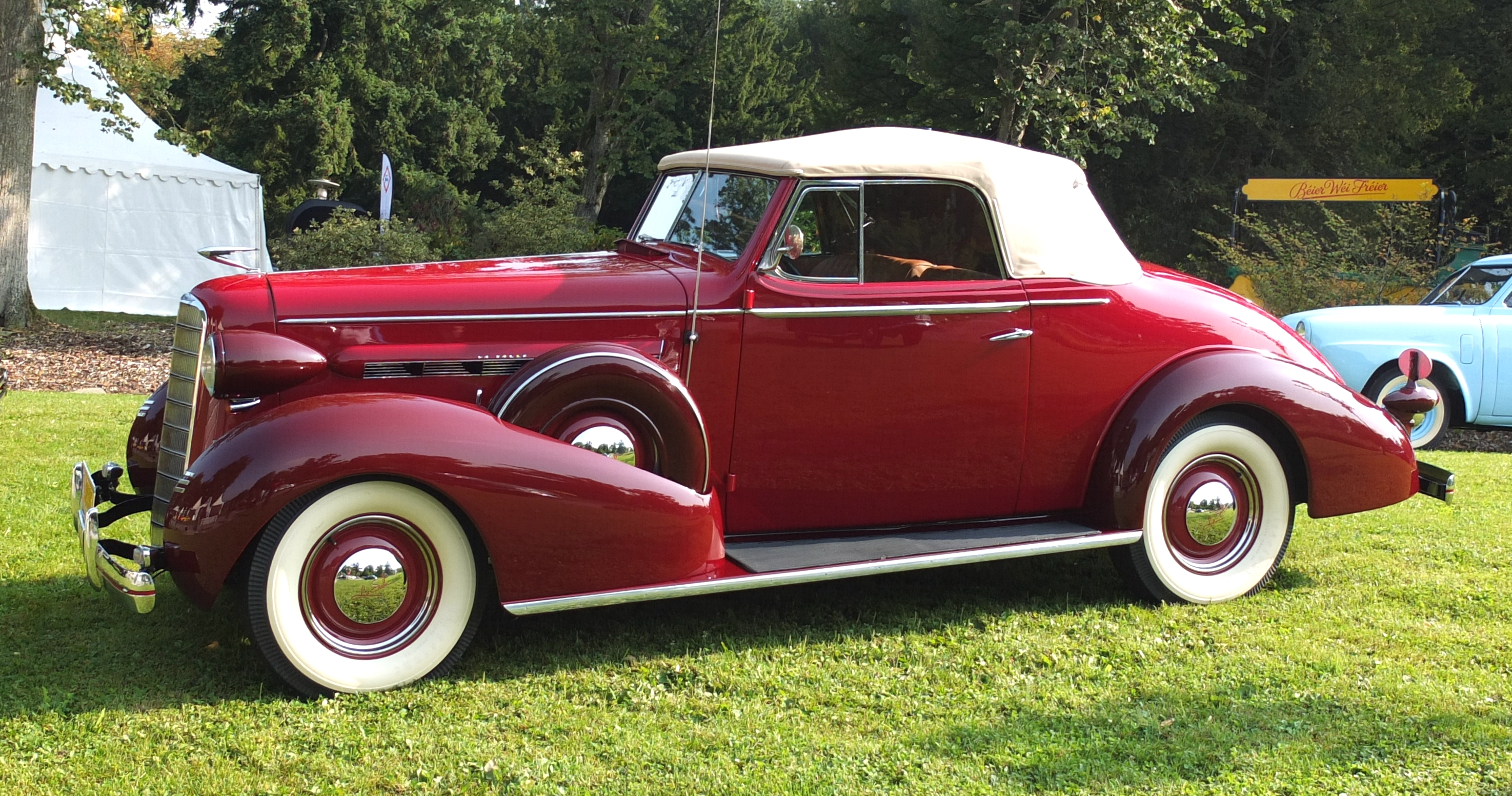 LaSalle Roadster, built 1936, seen at Concours d'Élégance in Mondorf-les-Bains, Luxembourg.